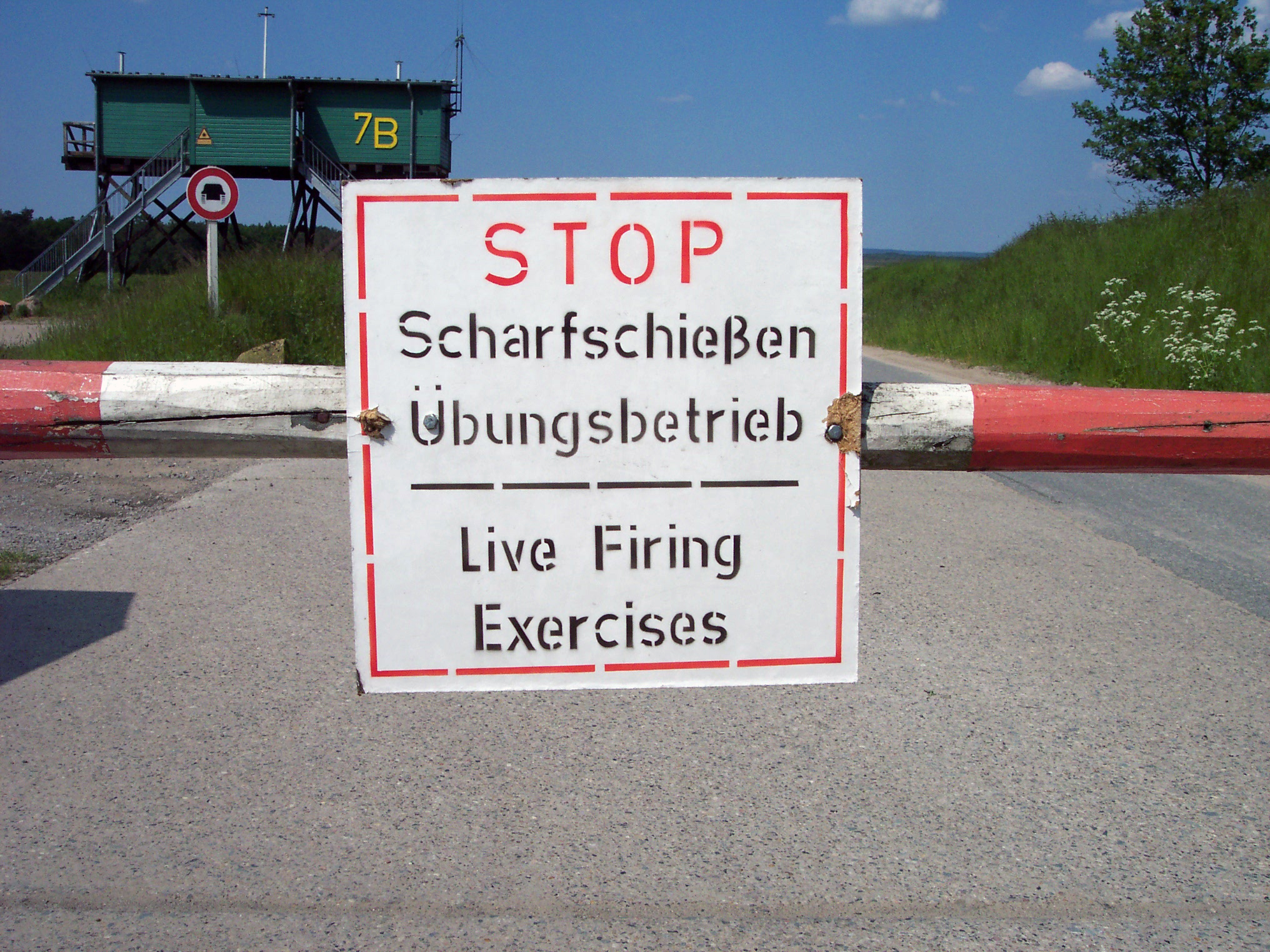 Bergen-Hohne Training Area "NATO-Truppenübungsplatz Bergen" (Range SB 7B) (Lower Saxony, Germany).